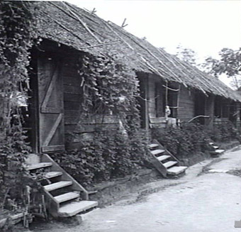 Kuching, Sarawak, Borneo. Kuching Force. Australian Officer Prisoner of War barracks showing the front. This building used to house about 60 officers.